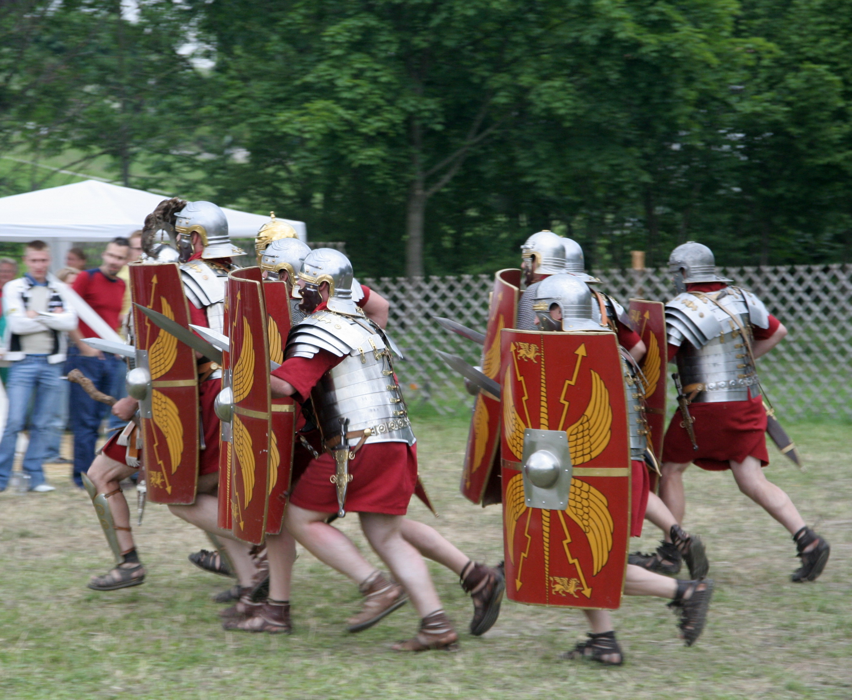 Roman soldiers attacking. (Dressed like 70 a.C.) Photographed by myself during a show of Legio XV from Pram, Austria